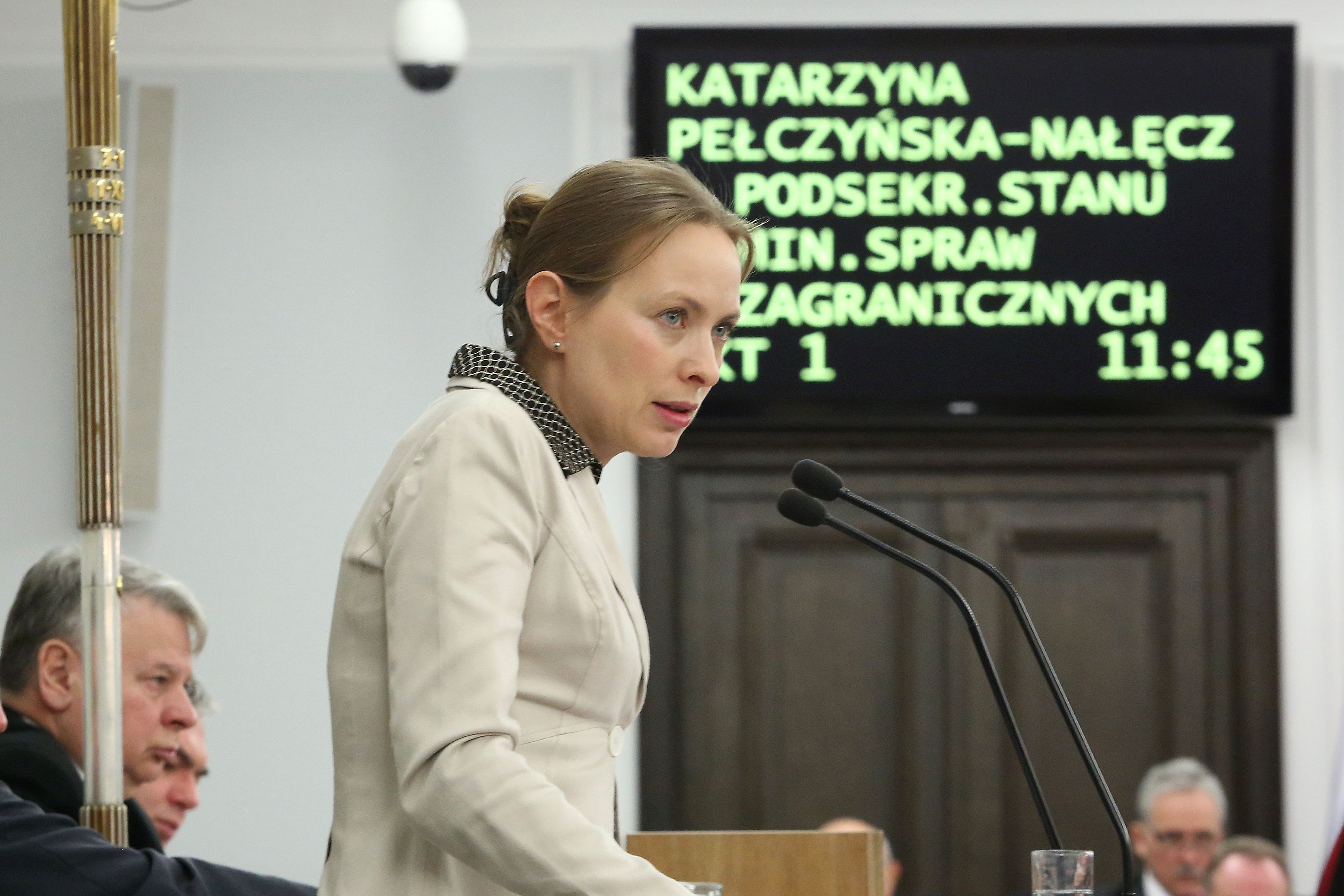 Undersecretary of state in the Ministry of Foreign Affairs Katarzyna Pełczyńska-Nałęcz in the Polish Senate